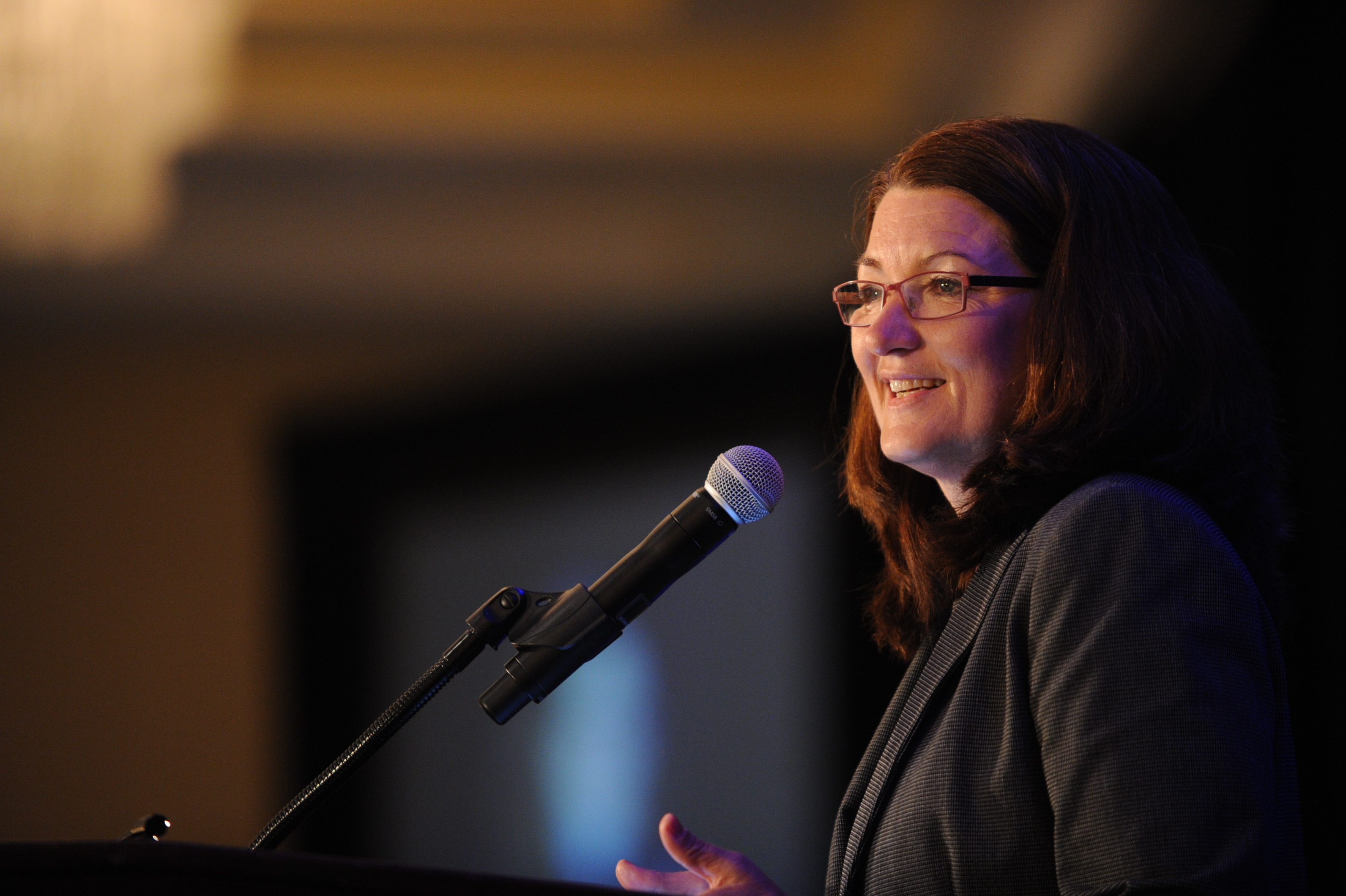 A presenter speaks at the National Alliance to End Homelessness, at the Renaissance Washington DC Hotel, July 17, 2012. (HHS photo by Chris Smith) Read the Secretary’s Remarks